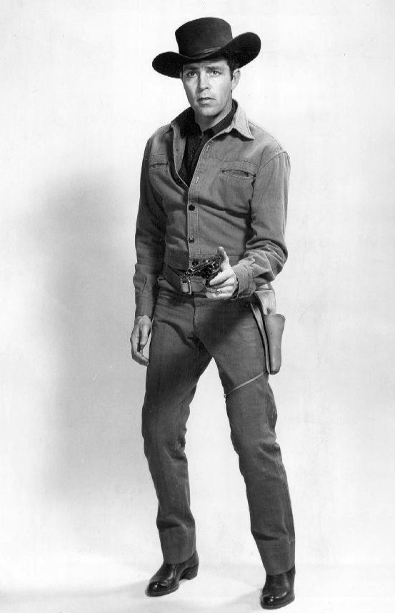 Publicity photo of Dale Robertson from the television program Tales of Wells Fargo.